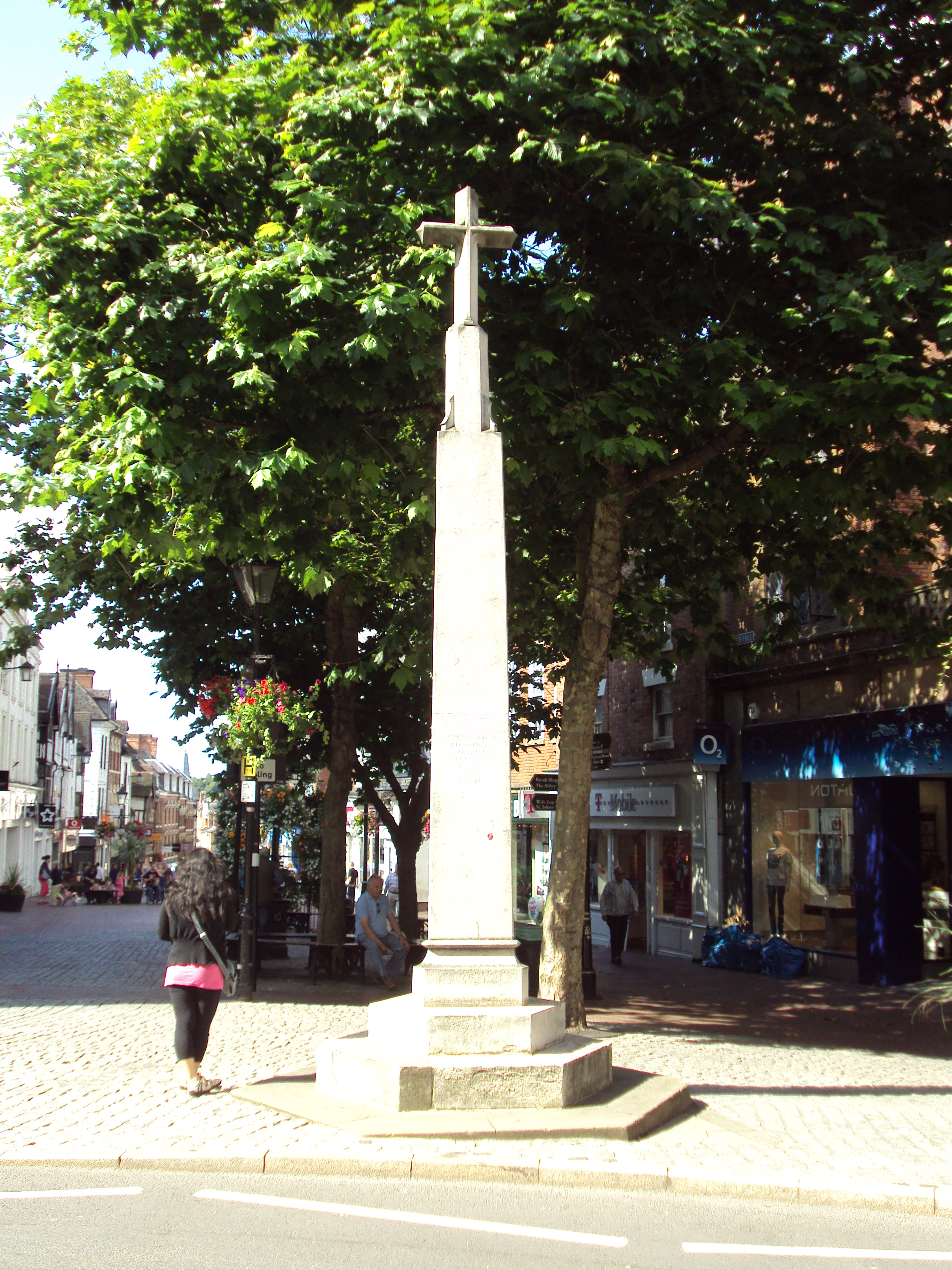 War Memorial on Pride Hill, Shrewsbury, England.